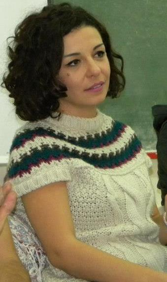 Fatma Turgut which is a Turkish female rock vocalist in Middle East Technical University.